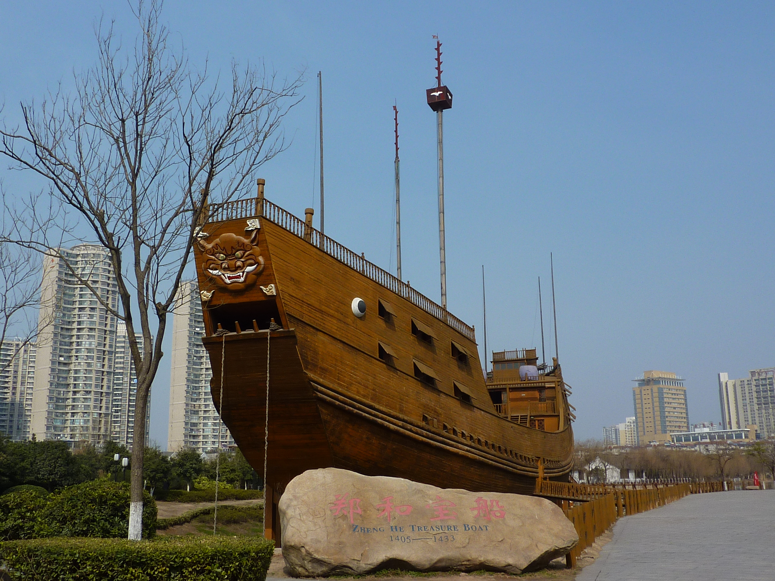 A full-size model of a "middle-sized treasure boat" (63.25 m long) of the Zheng He fleet at the Treasure Boat Shipyard site in Nanjing. Build ca. 2005 from concrete, lined with wooden planks.